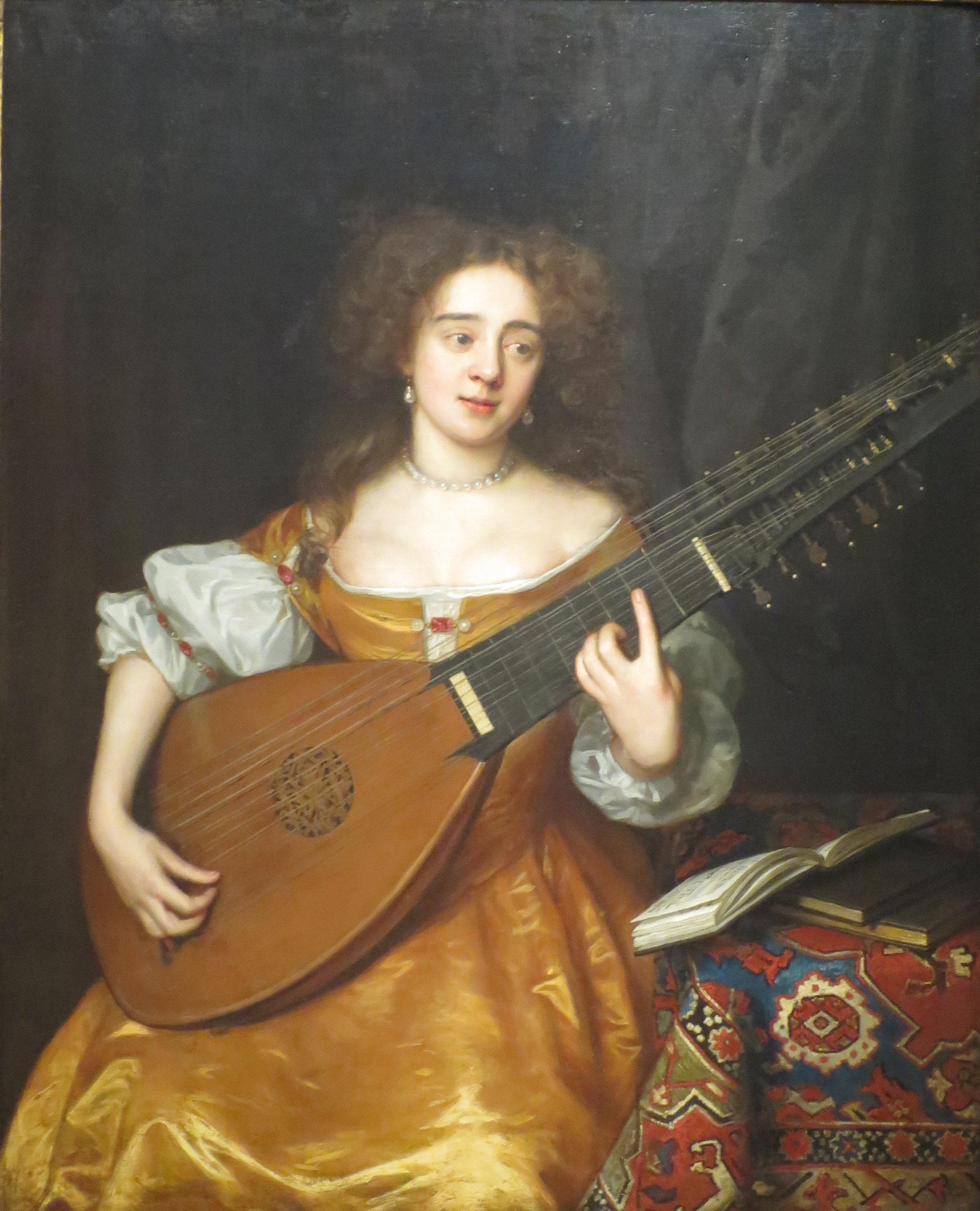 Woman with an 11-course lute (a theorbo), the lowest courses each with individual nuts.